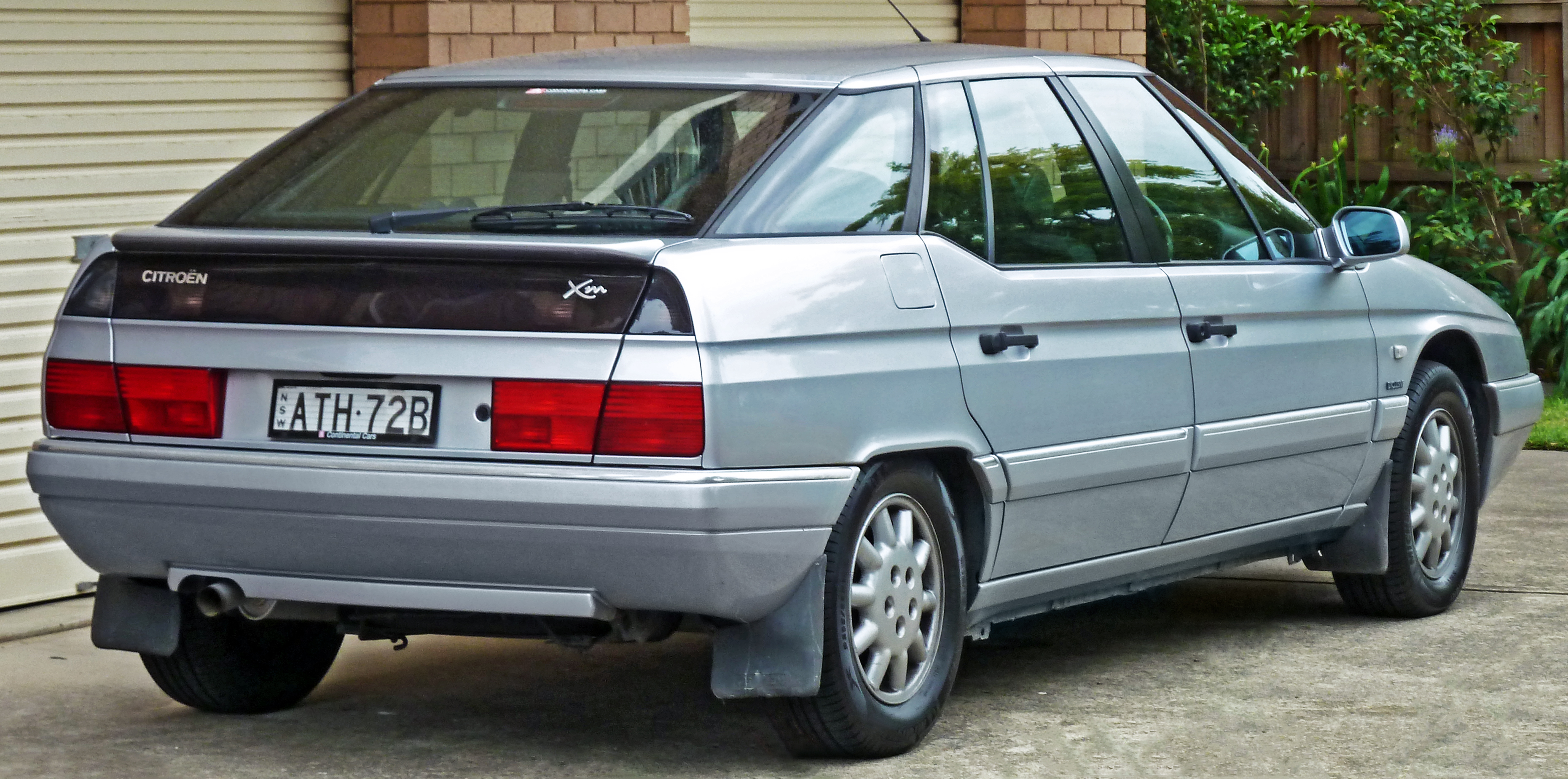 2000 Citroën XM hatchback. Photographed in Dolls Point, New South Wales, Australia.